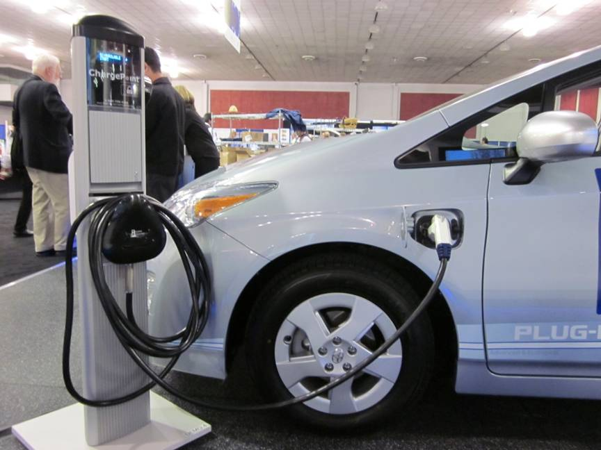 Plug-In Toyota Prius.